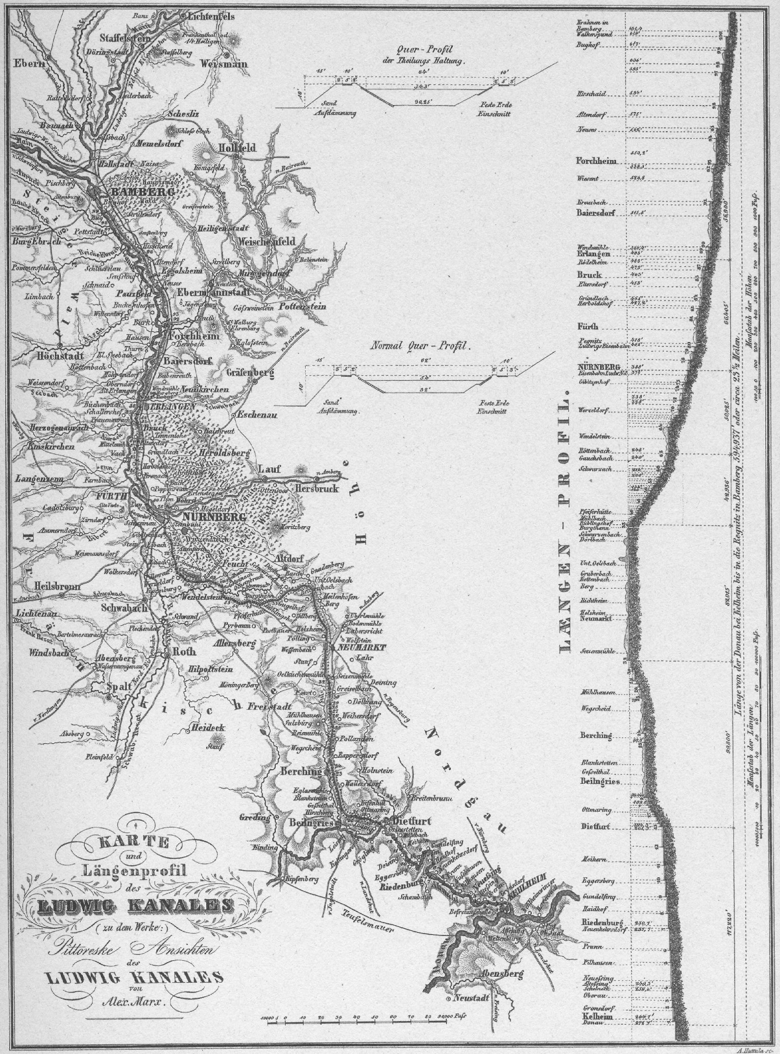 Map and hight profile of the Ludwig channel. Scan from the book “Der alte Kanal – damals und heute” whereas the map is only a reproduction from the book "Pittoreske Ansichten des Ludwig Kanales" from the year 1845.